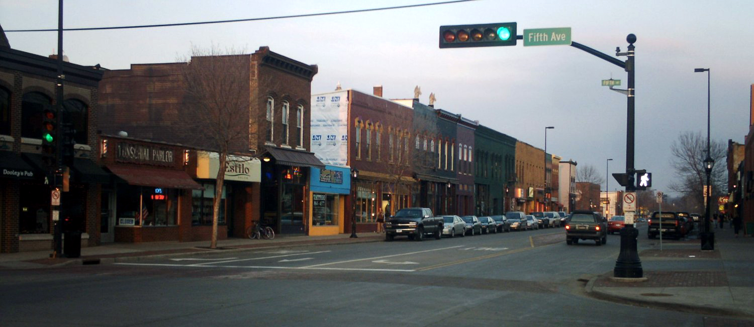 Water Street, Eau Claire, Wisconsin